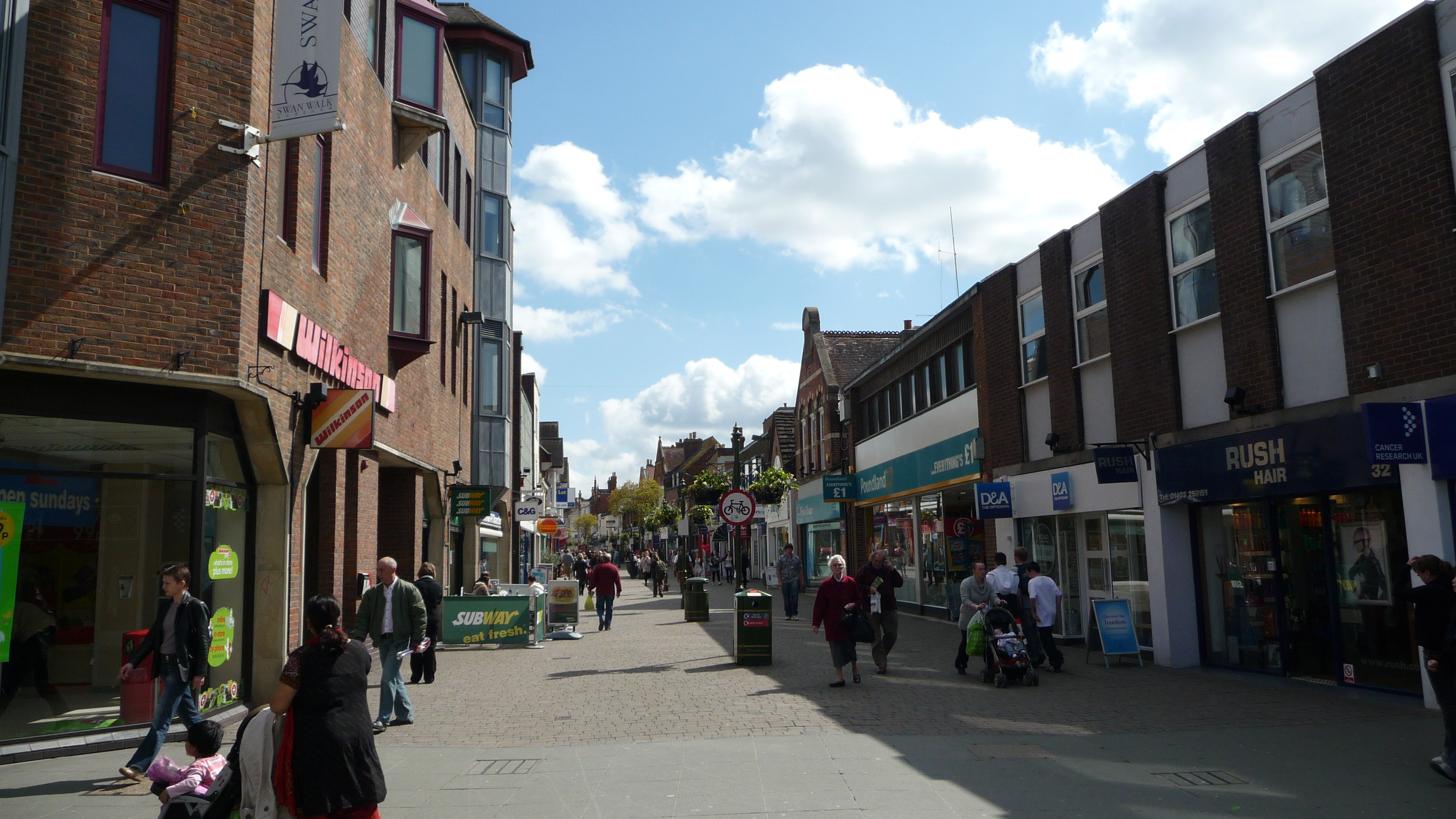 West Street, Horsham, viewed from the Bishopric end, by the Shelley Fountain, looking towards the South Street end.